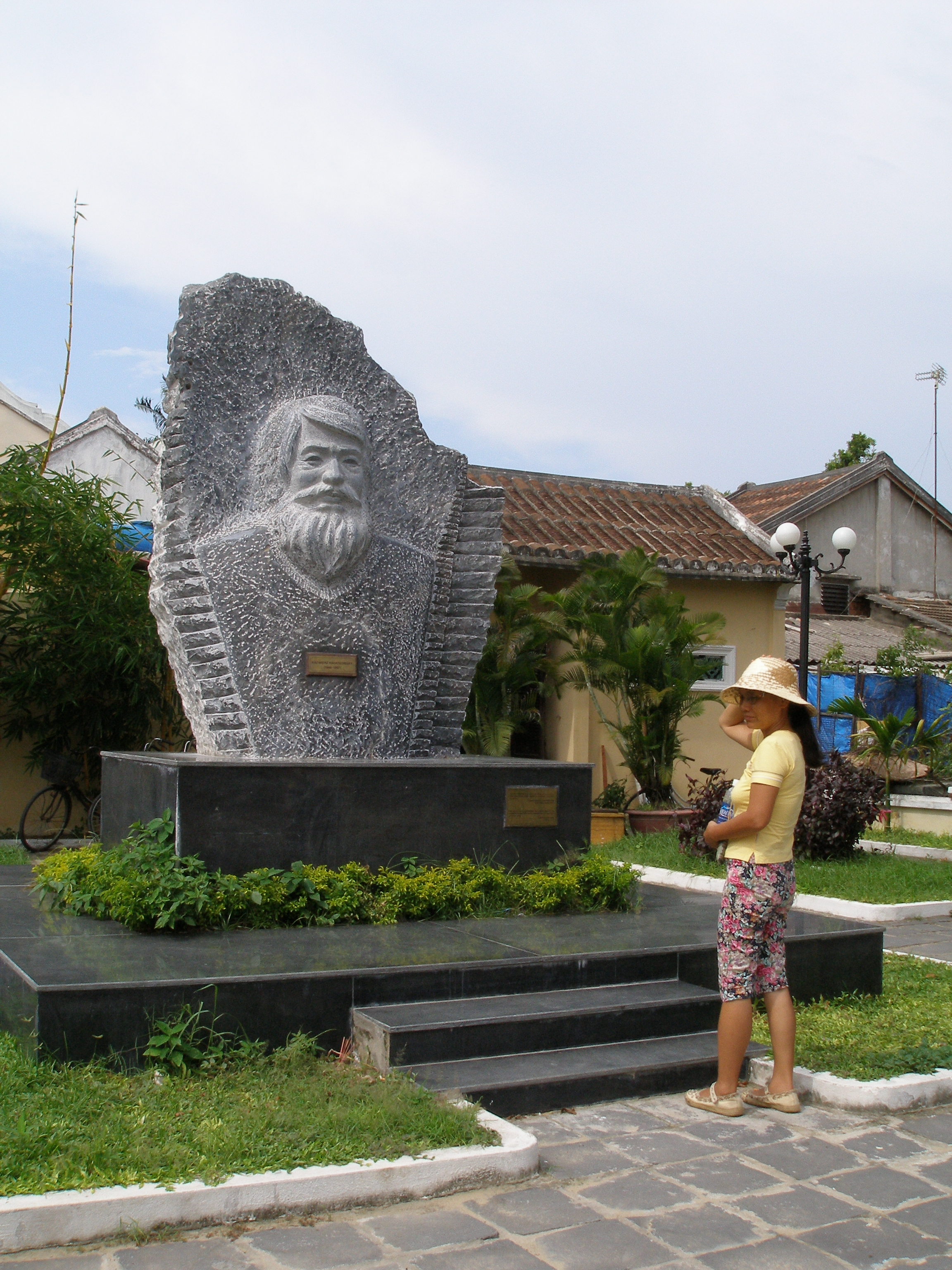 Monument of Kazimierz Kwiatkowski in Hoi An, Wietnam